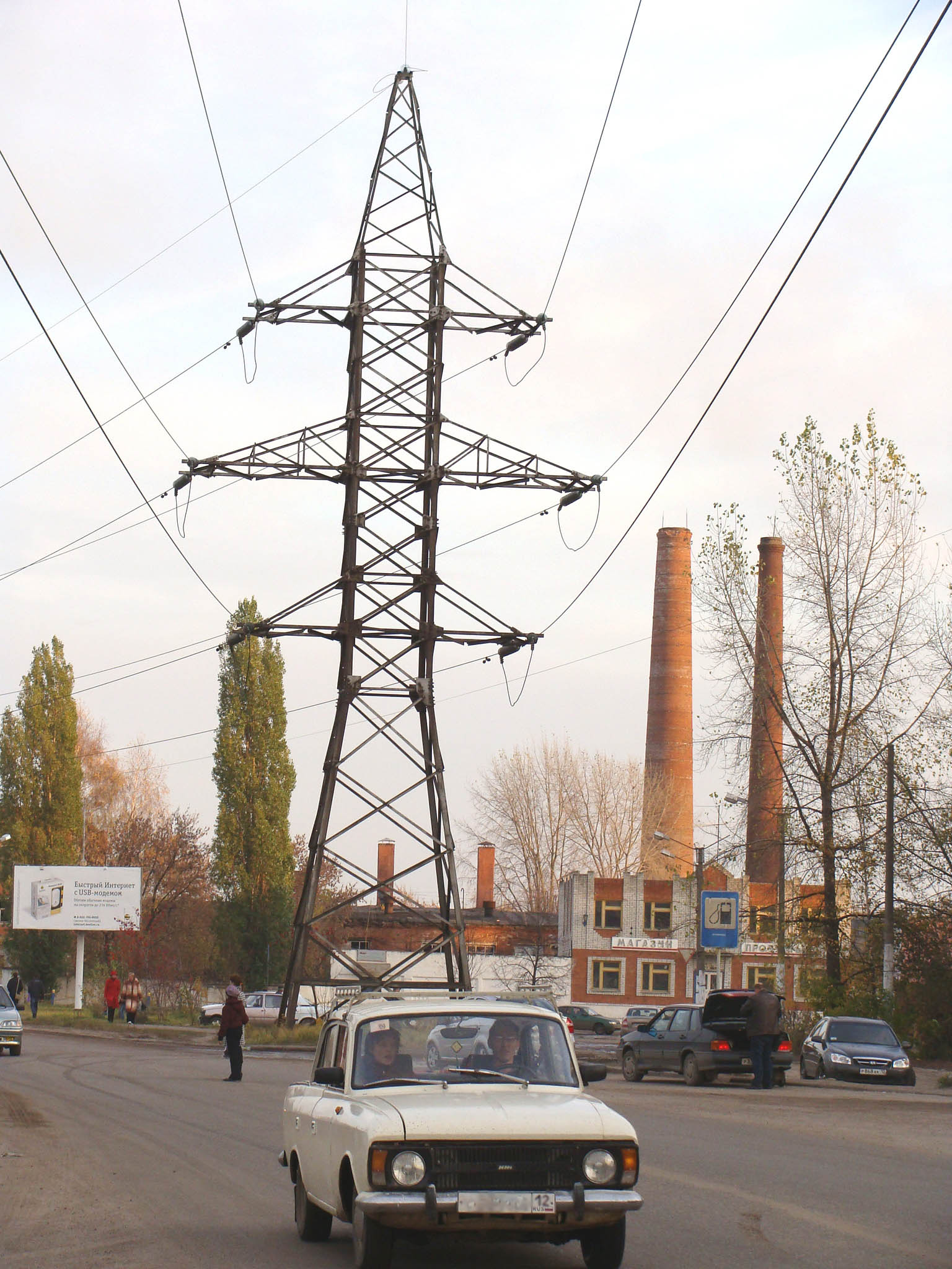 Lenin Street, downtown in Volzhsk, Russia. The woodprocessing plant on the background.